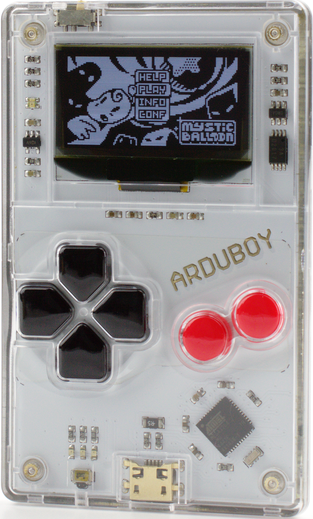 White Arduboy